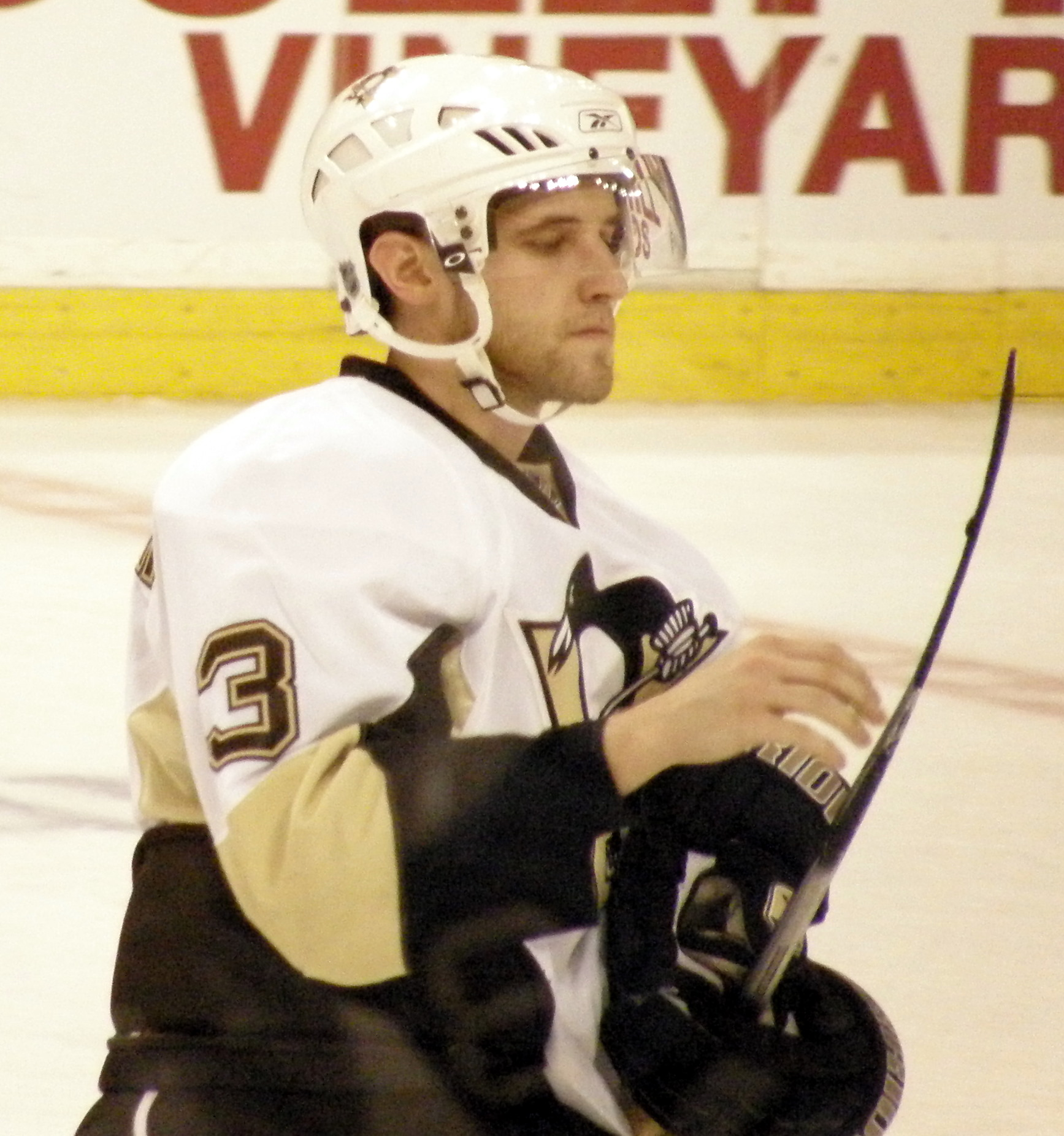 3, Alex Goligoski, D, PIT Pittsburgh Penguins at (vs) Boston Bruins, TD Banknorth Garden (Boston Garden), March 18, 2010